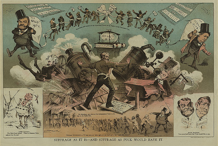 Cartoon, "Suffrage As It Is—And Suffrage As Puck Would Have It." Depicted in the cartoon are politicians John Kelly and Alonzo Cornell of New York.